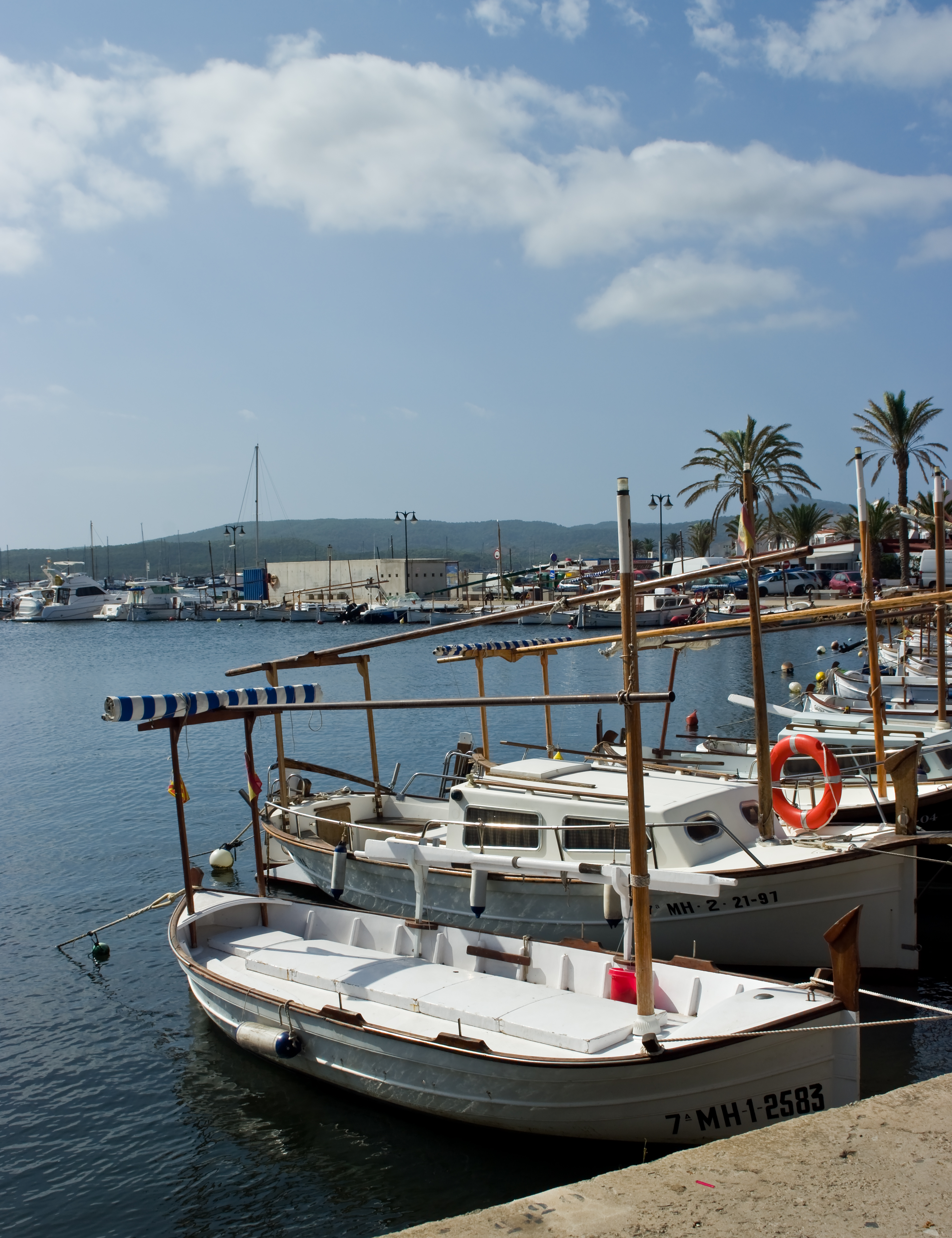 Port in Fornells, Minorca, Spain.